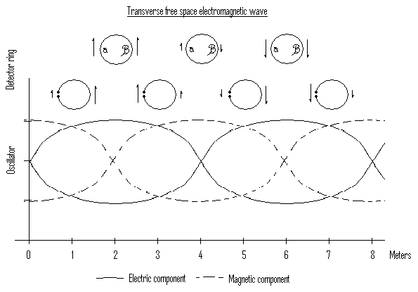 Transversal electromagnetic waves, according to Heinrich Hertz's 1887 experiments